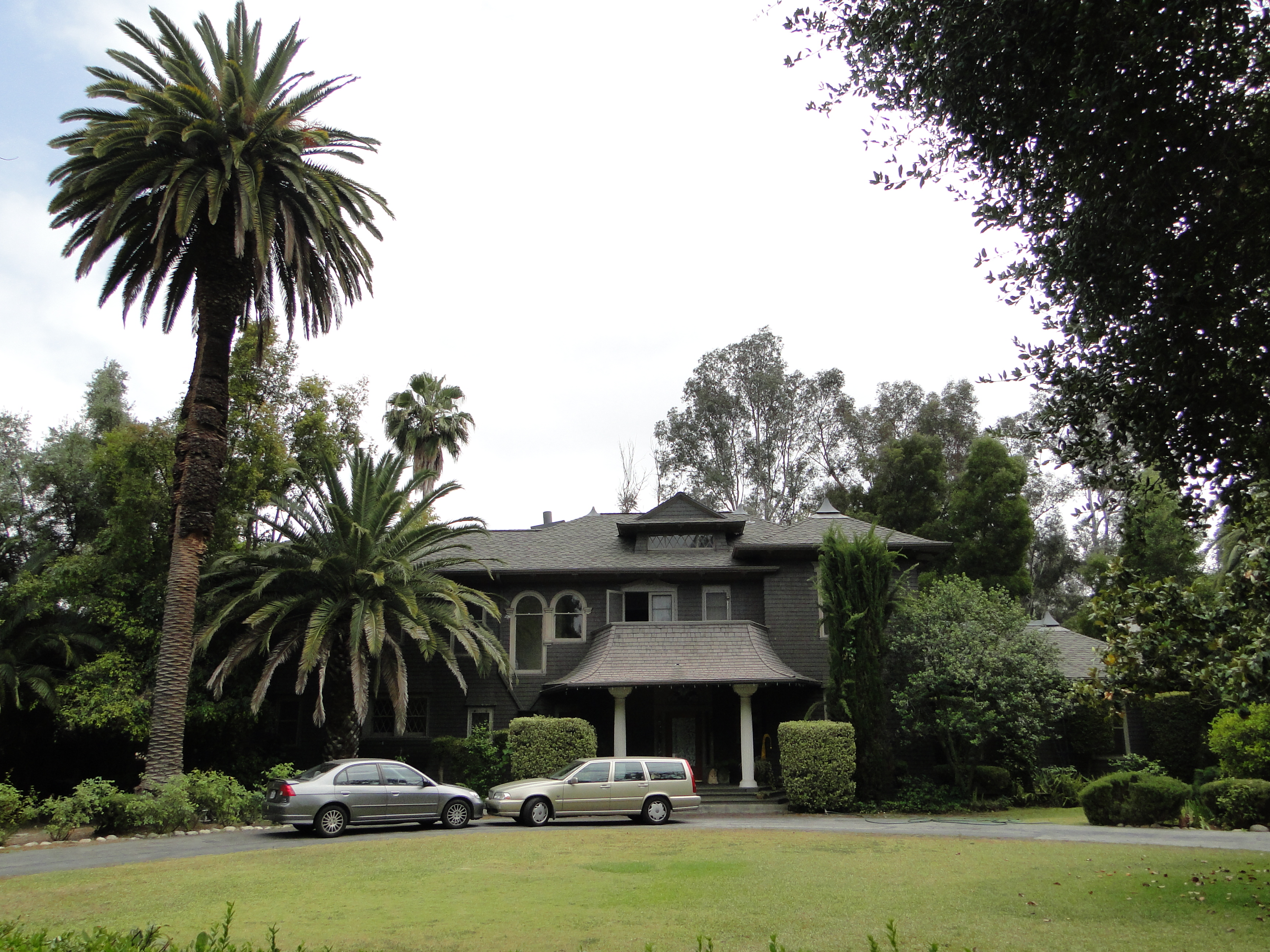 Howard and Etta Longley House, 1005 Buena Vista St., South Pasadena. Designed by Greene & Greene. Built 1897. Listed on the National Register of Historic Places.